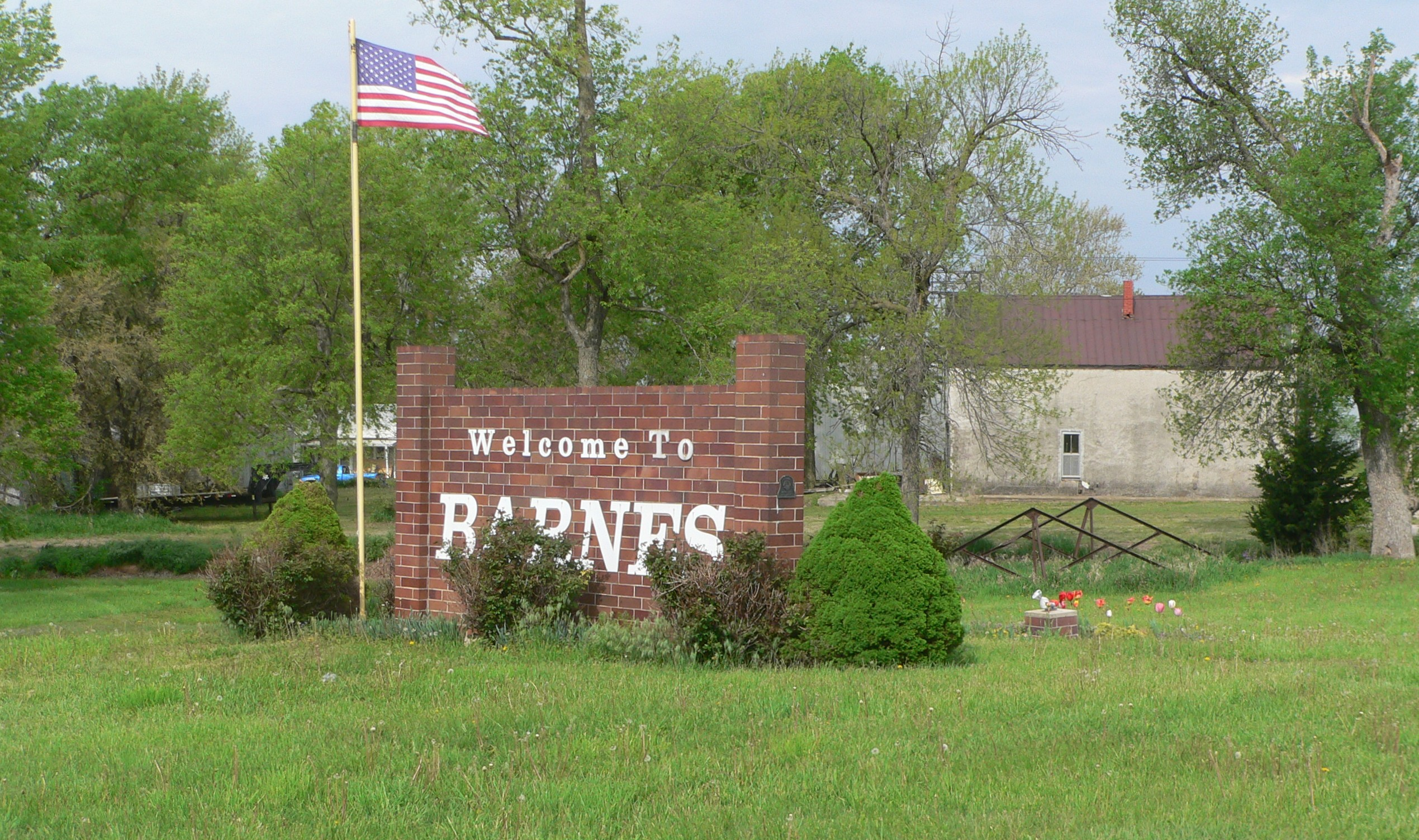 Welcome sign on south side of Kansas Highway 148 in Barnes, Kansas; seen from the east. Behind and to the right of the sign is the Washington County kingpost bridge, listed in the National Register of Historic Places.